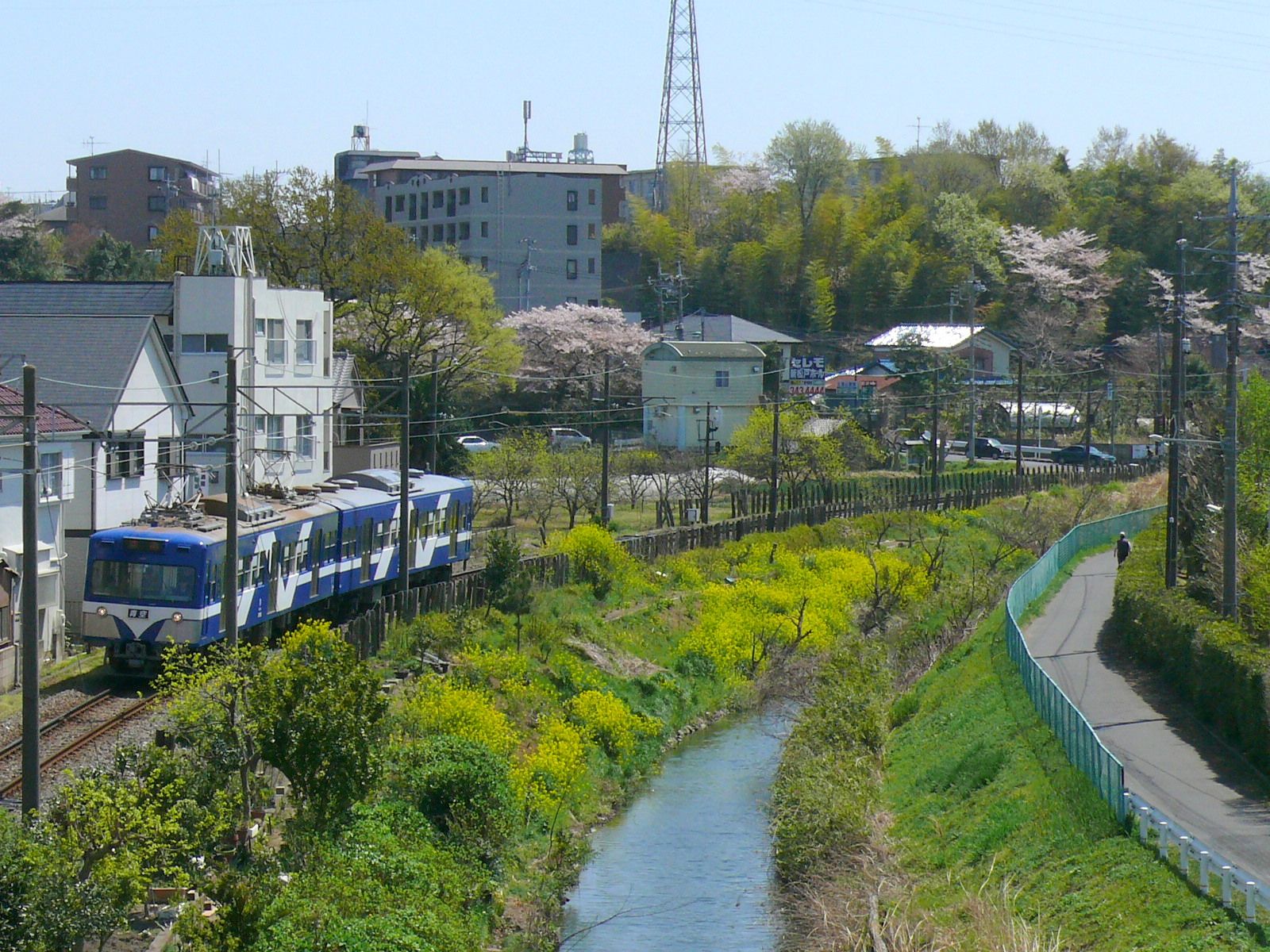 Ryutetu Nagareyama line Koganejoushi Station.